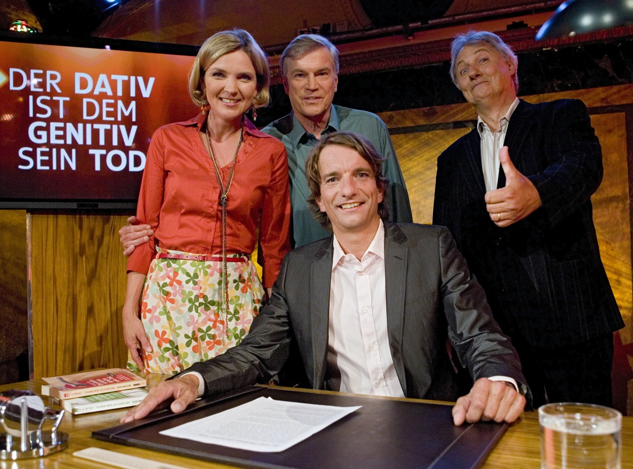 German author Bastian Sick with comedians Susanne Pätzold, Jochen Busse and Konrad Beikircher during the making of the tv show „Die Bastian-Sick-Schau“ for german broadcasting company WDR in Cologne, 11th of june 2008